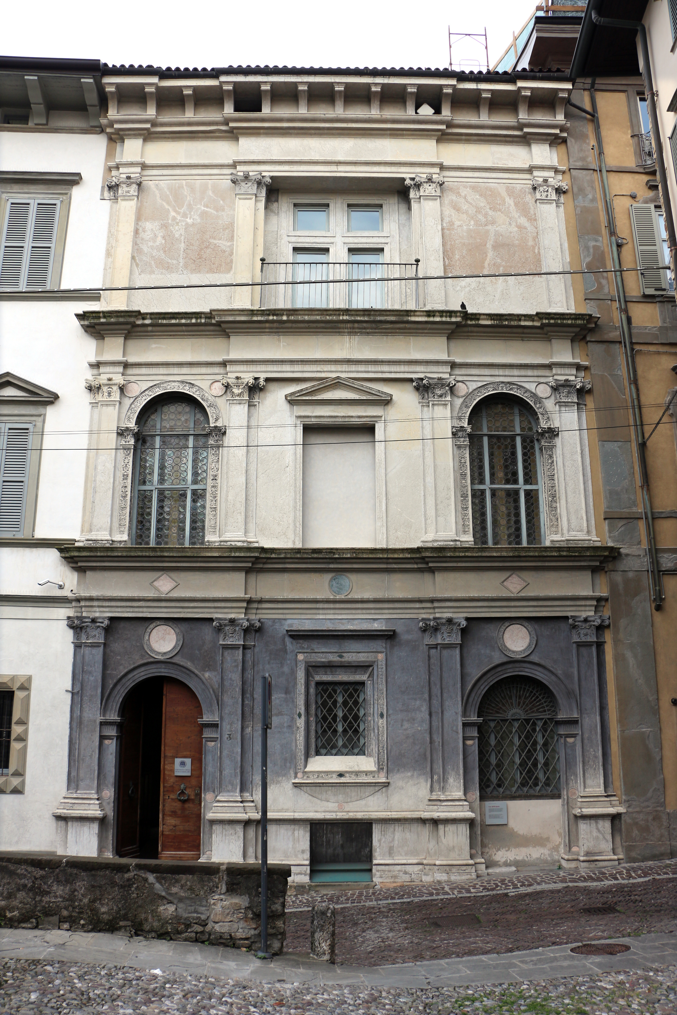 Bergamo